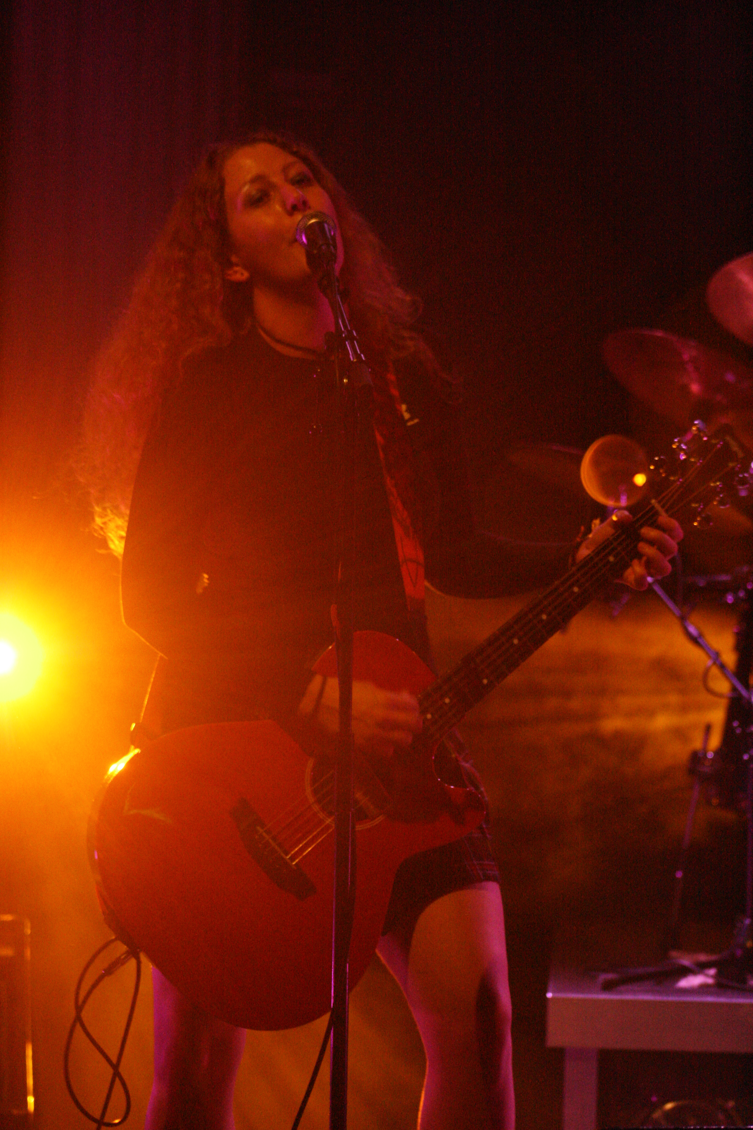 Photo of Erin Bennett playing live at de Bibelot, Dordrecht, The Netherlands. December 2009